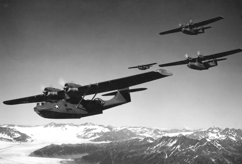 Four U.S. Navy Consolidated PBY-5 Catalina aircraft in flight over a glacier in the Alaskan coast, 22 August 1942. The wartime censor has tried to erase the squadron code on the first PBY, which appears to be "43-P-16". VP-43 operated from Nazan Bay, Atka Island, against the Japanese on Kiska and Attu Islands.